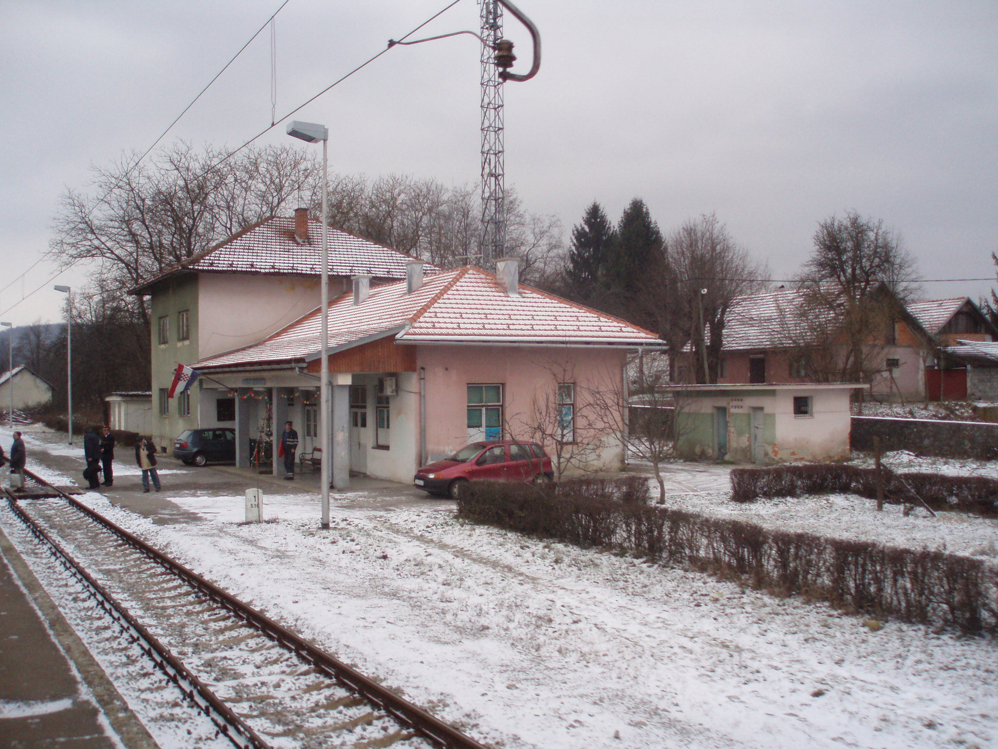 Gornje Dubrave, railway station on the railroad Zagreb-Rijeka.